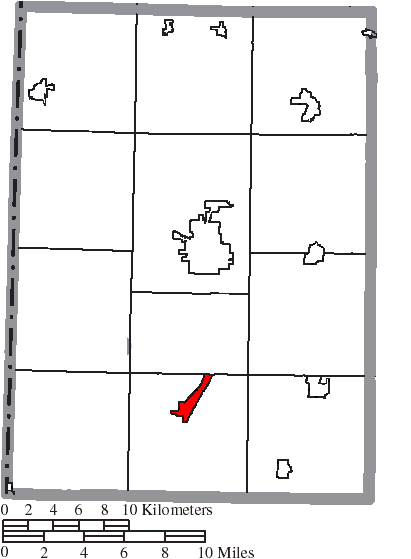 Map of the municipal and township boundaries of Preble County, Ohio, United States, as of the 2000 census, with the location of the village of Camden highlighted. Township borders are shown only in unincorporated areas in order to differentiate incorporated and unincorporated areas more clearly.